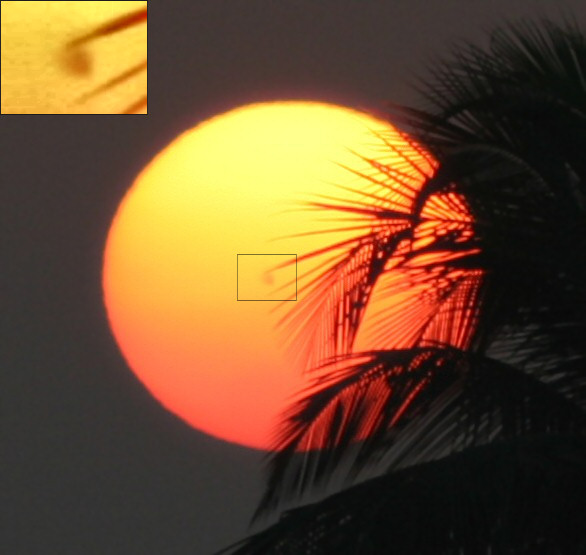 A sun spot (dark smudge, slightly left of centre). Observed at sunset in Bangladesh. Date: 7th January 2004 12:20 GMT 7 ISO: 200 Photograph: ed g2s • talk